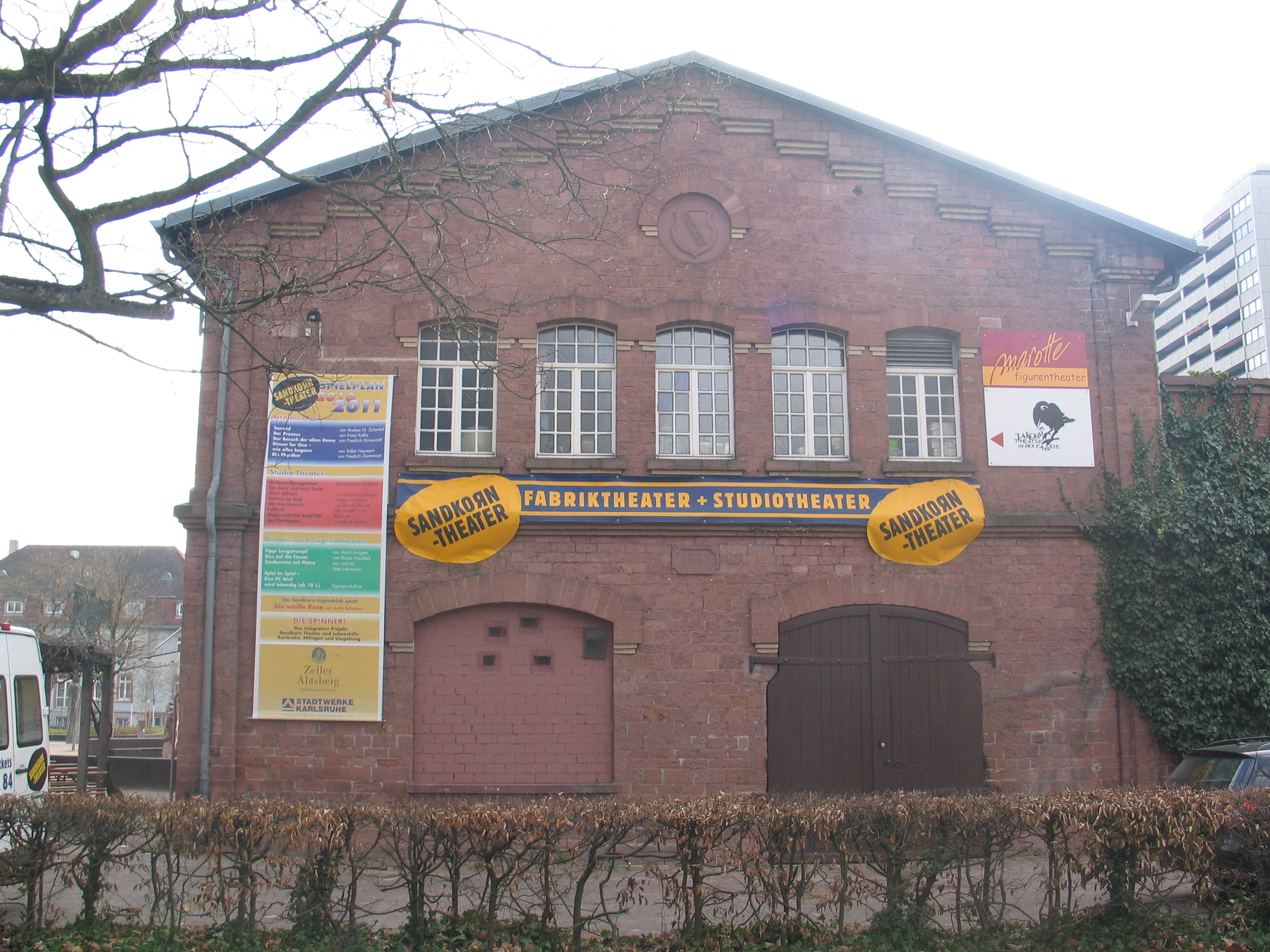 Sandkorn theatre in Karlsruhe